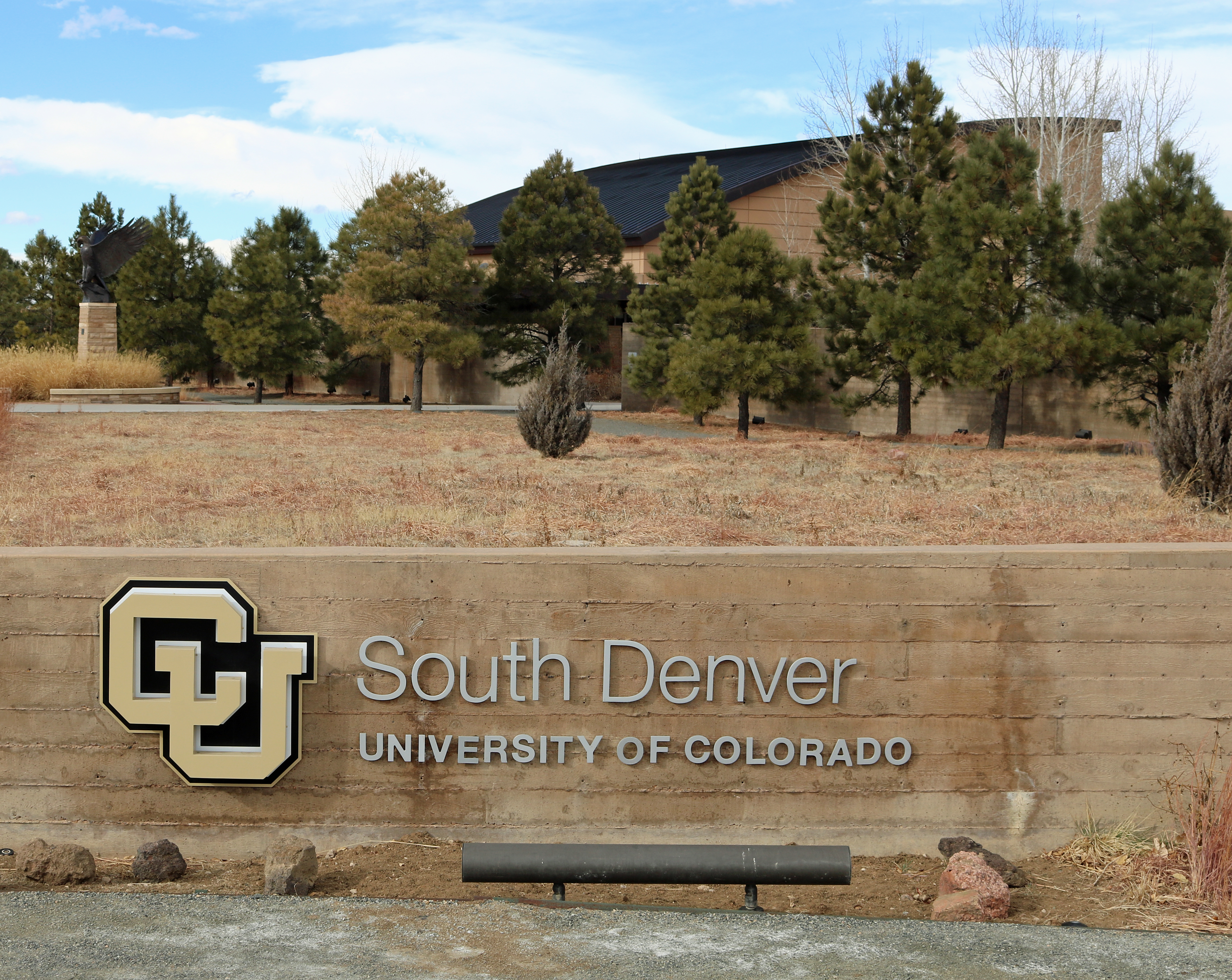 One of the signs for the University of Colorado South Denver (CU South Denver), located at 10035 South Peoria Street in Lone Tree, Colorado.